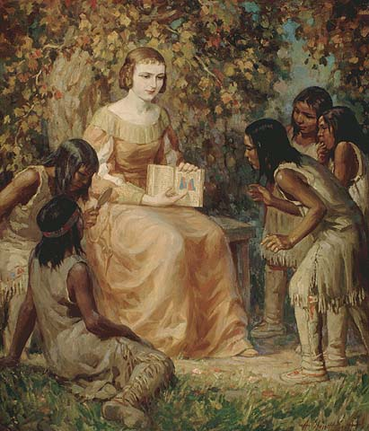 Madame Champlain Teaching Indian Children